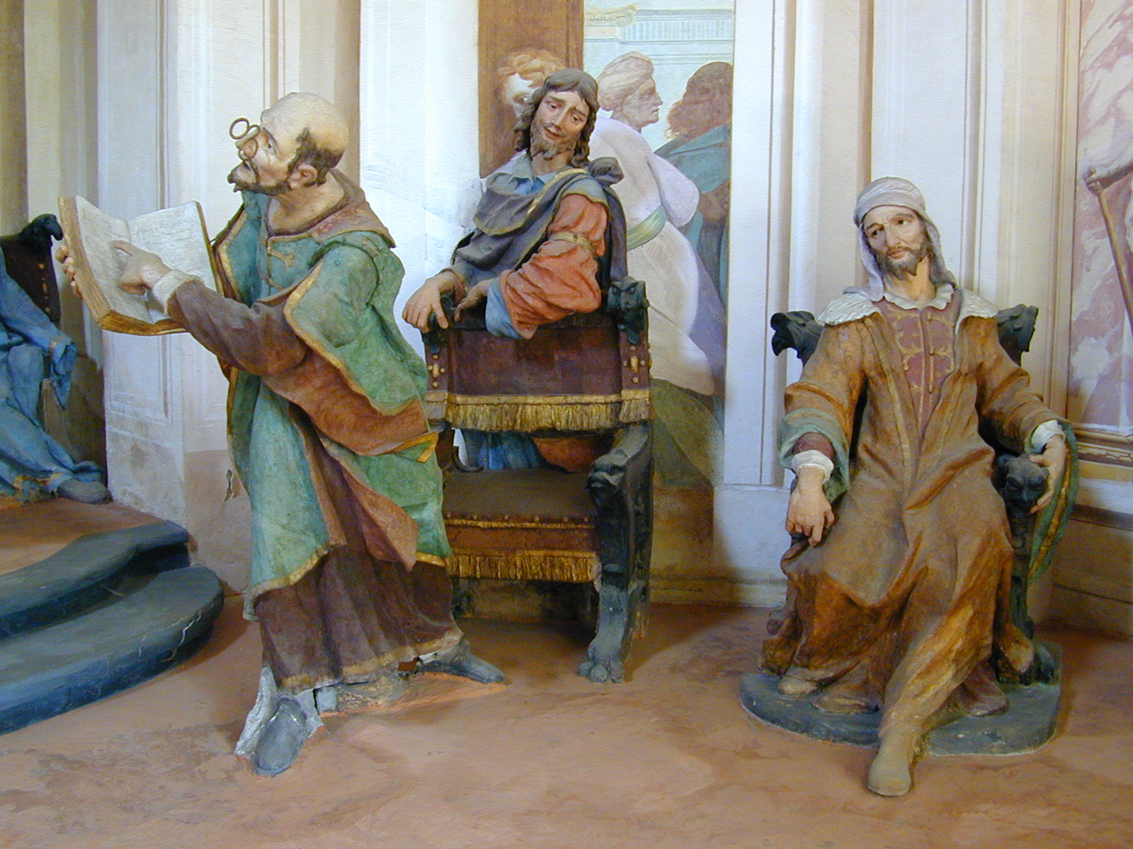 Sacro Monte di Ossuccio, Chapel X (The Finding of the Child Jesus in the Temple), statues by Agostino Silva, XVII century